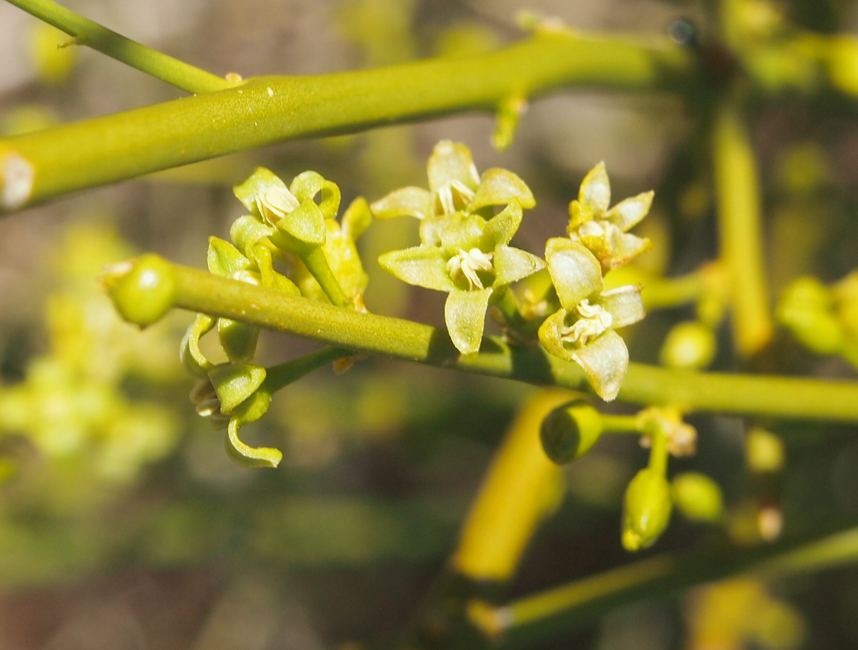 Anthobolus leptomeroides flowers